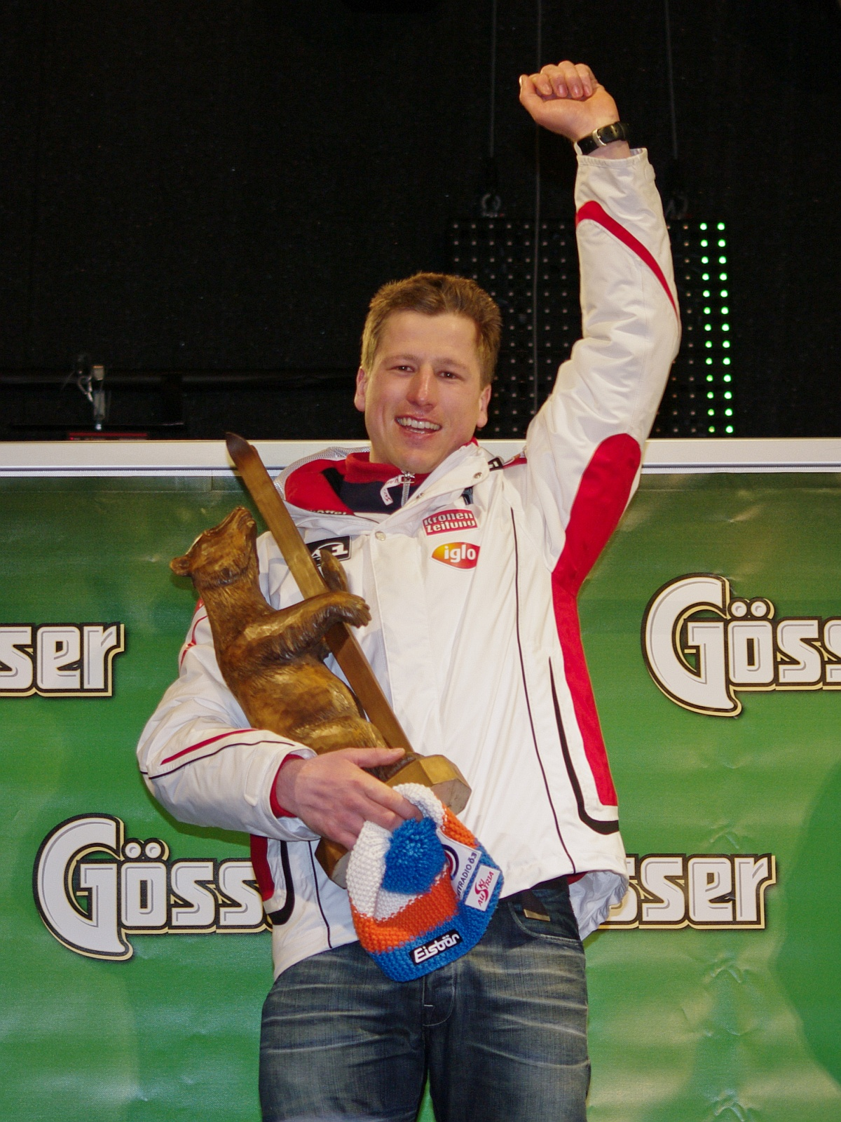 Austrian alpine skier Hannes Reichelt at the prize giving ceremony for the Super-G in Hinterstoder (Austria) on 5 February 2011.